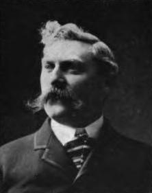 Portrait of New York state senator George Allen Davis